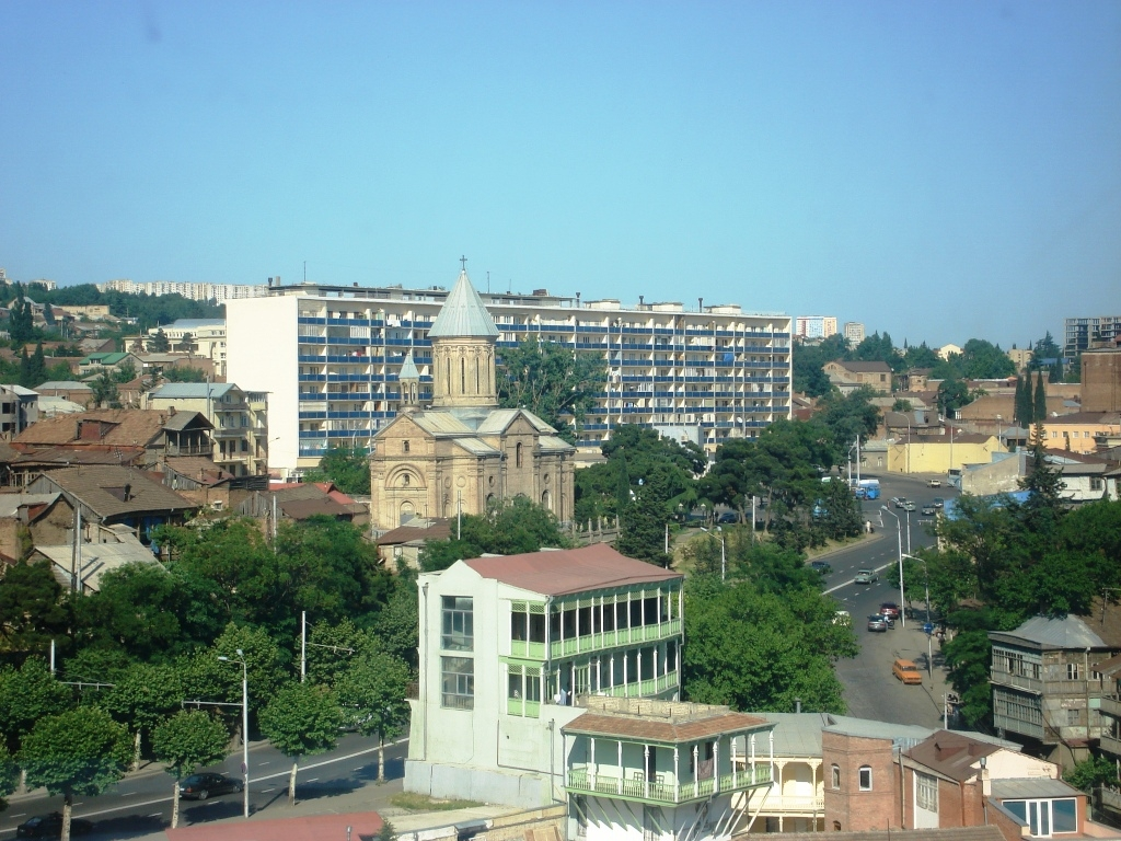 Avlabari Square in Tbilisi, Georgia and the Ejmiatsin Armenian Church (center left).